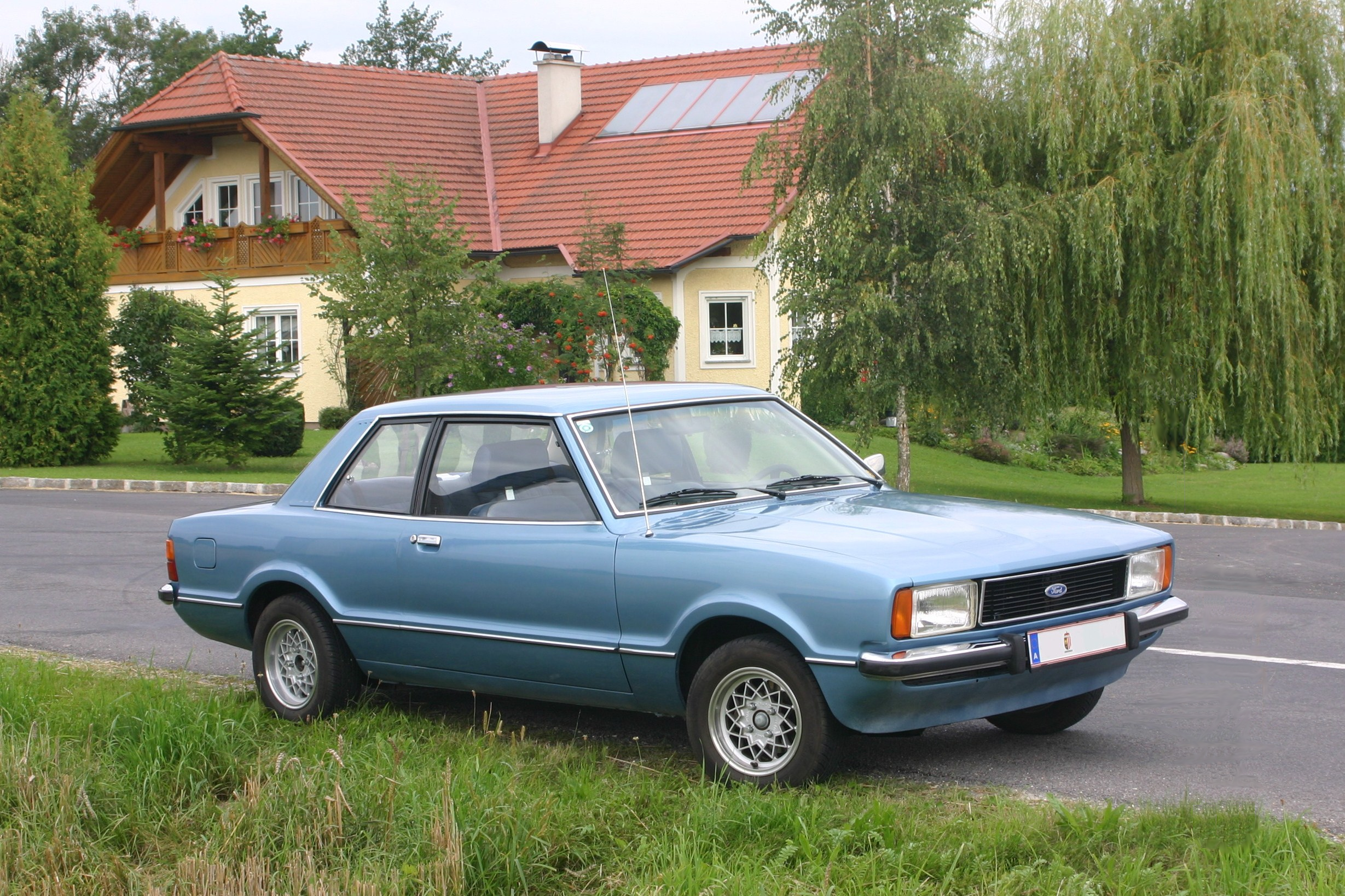 Ford Taunus 1.6 GL 1976 (TC2 series (Cortina Mk.4) 2 doors limousine)